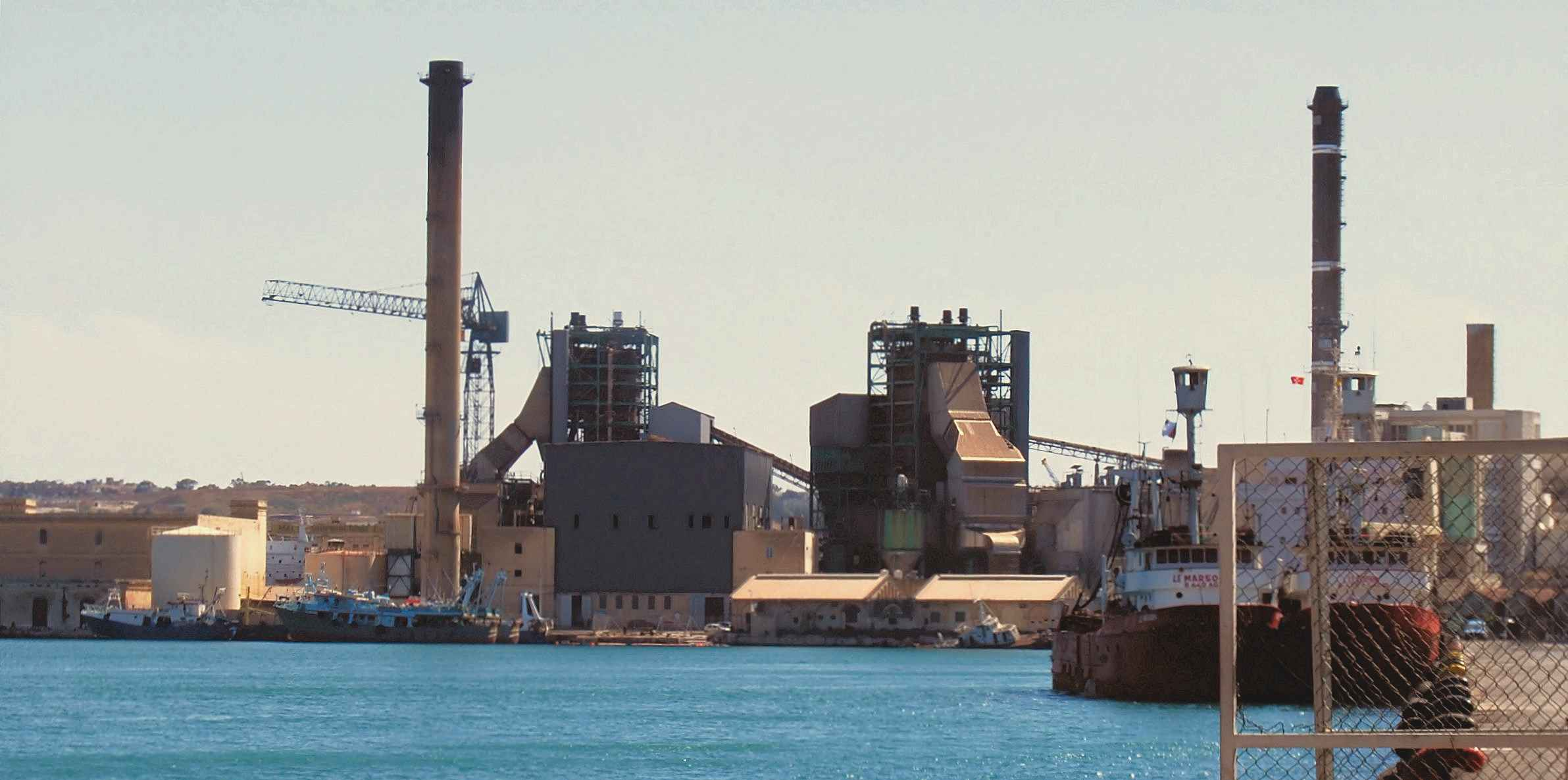 The oil-fired Marsa Power Station near Marsa at the end of Grand Harbour, Malta with a maximal power of 267 MW. It was connected to electricity grid in 1966 and is operational since then.